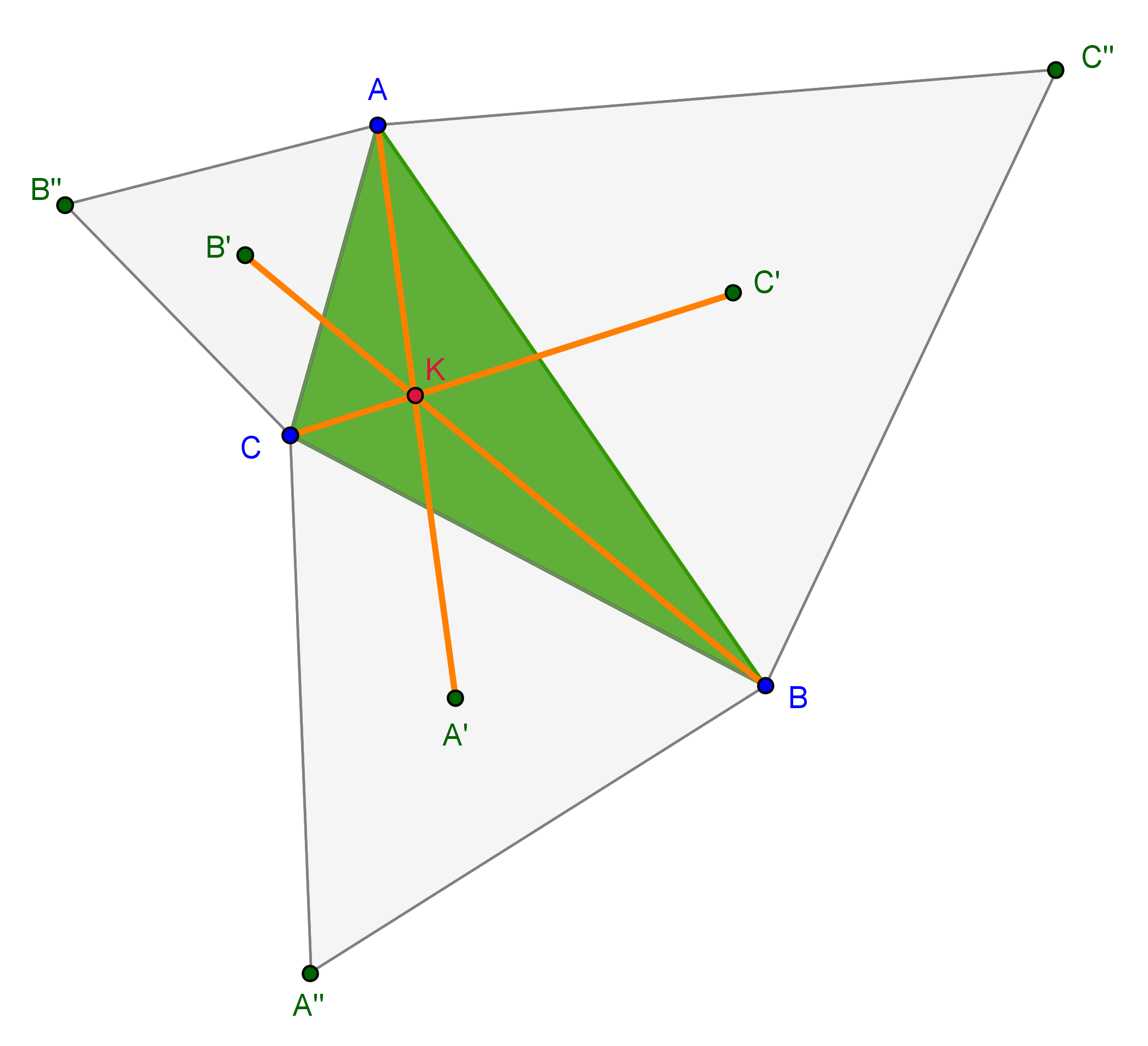 First Napoleon's point